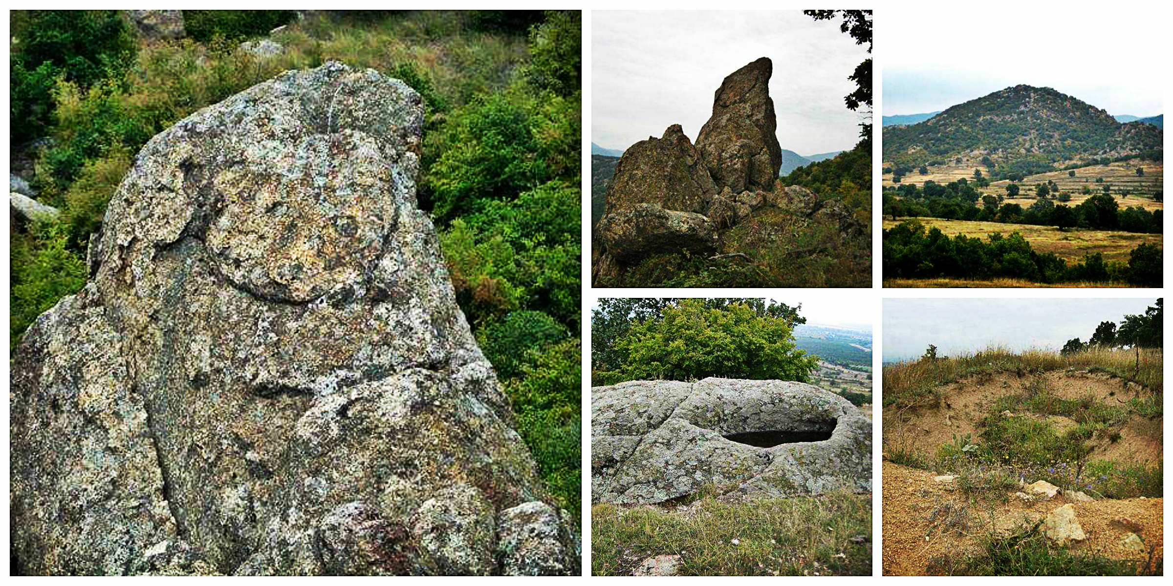 Eldermen solar shrine Starosel BG